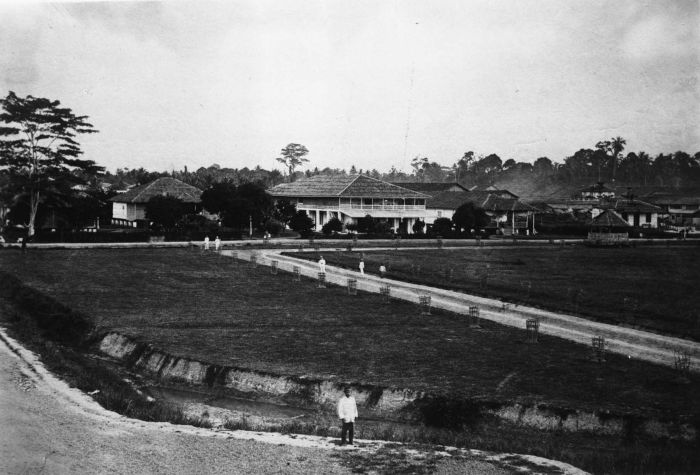 The Esplanade